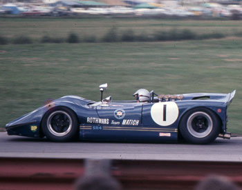 Frank Matich in the Matich SR4 at Surfers Paradise International Raceway in May 1969 - Photo by Graham Ruckert